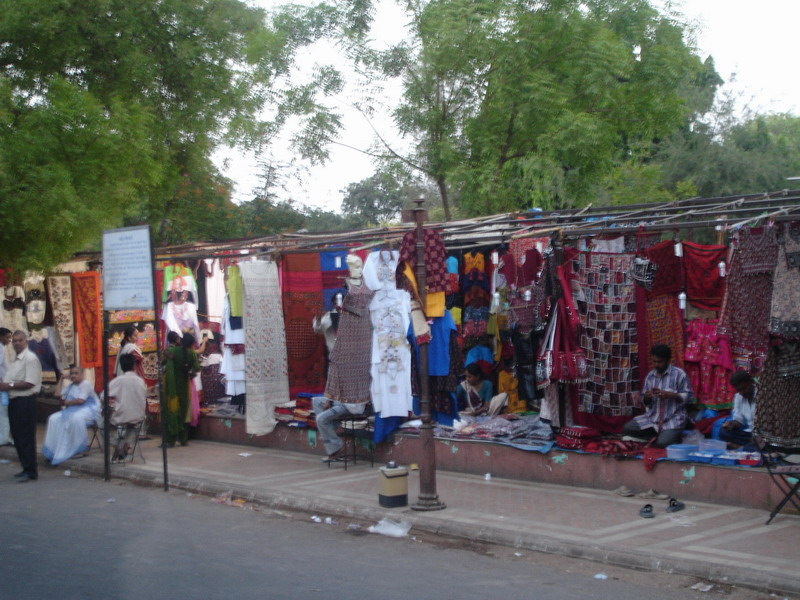 clicked by me - Srikeit(talk ¦ ✉) 11:53, 15 May 2006 (UTC)